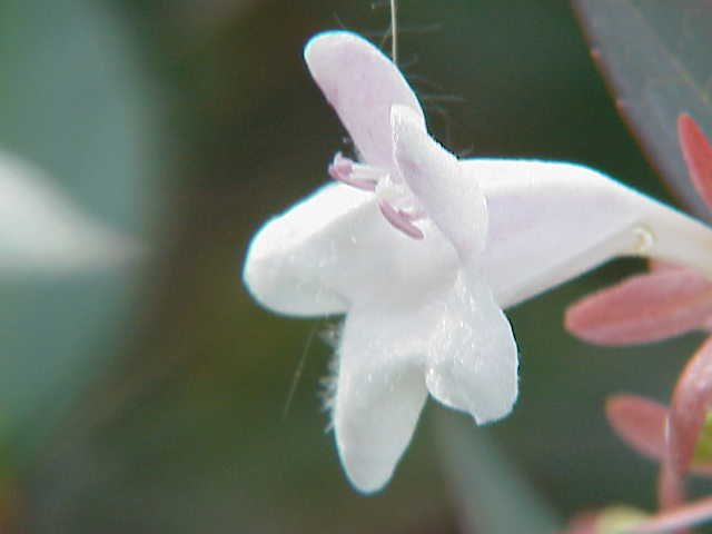 Species: Abelia floribunda Family: Caprifoliaceae Image No. 1